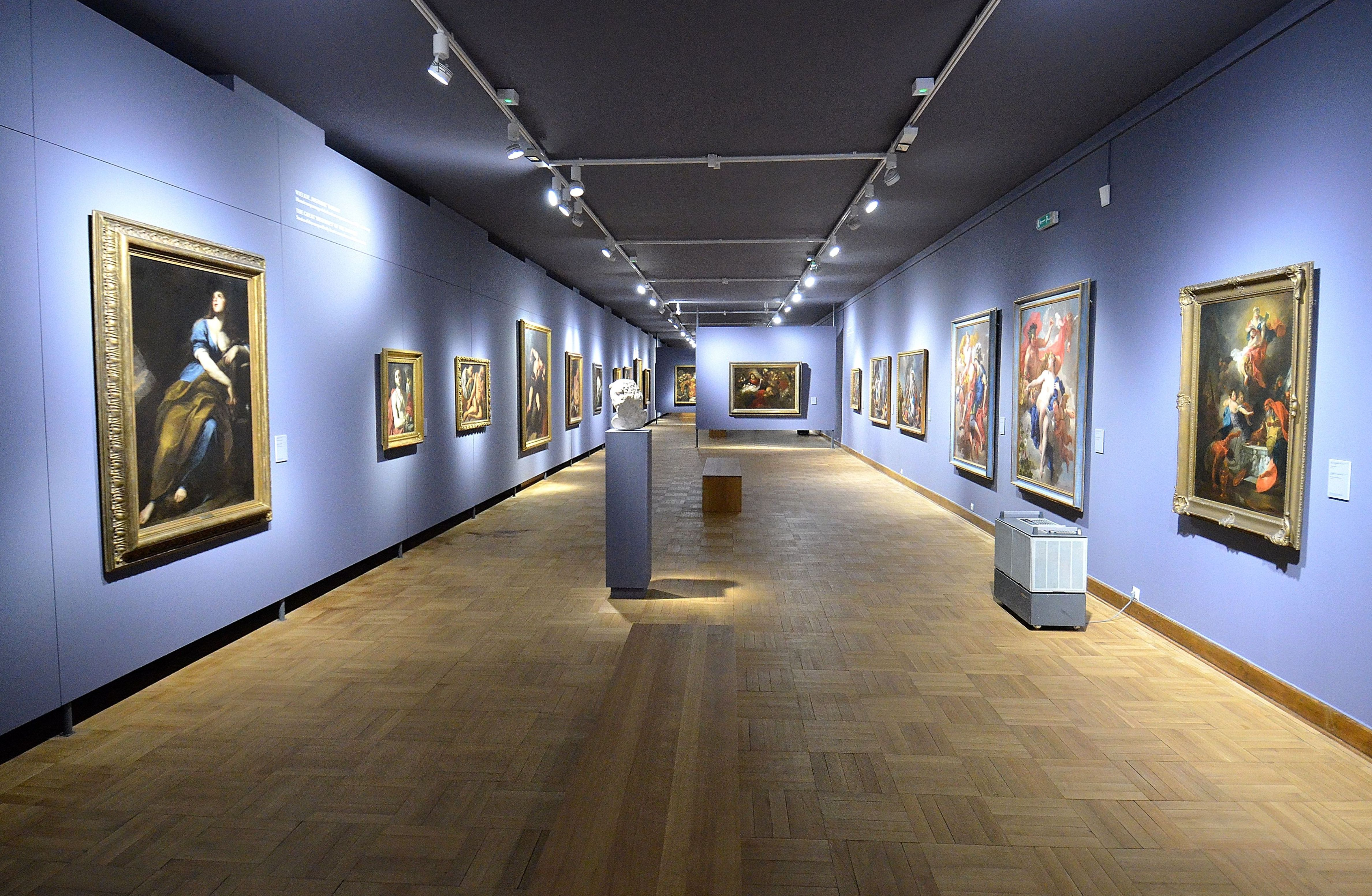 Gallery of the European Old Masters I. National Museum in Warsaw.